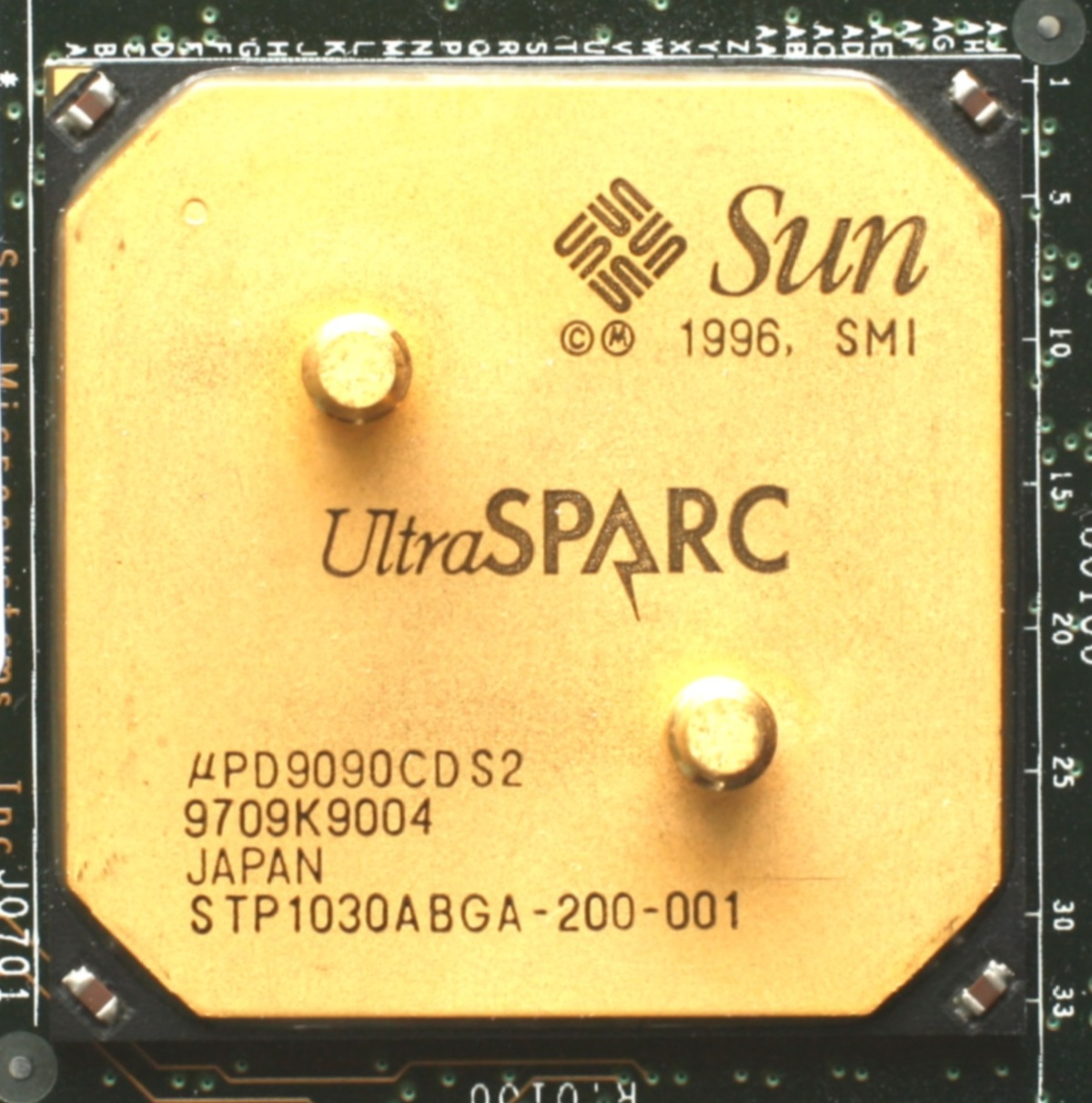 CPU Sun UltraSPARC